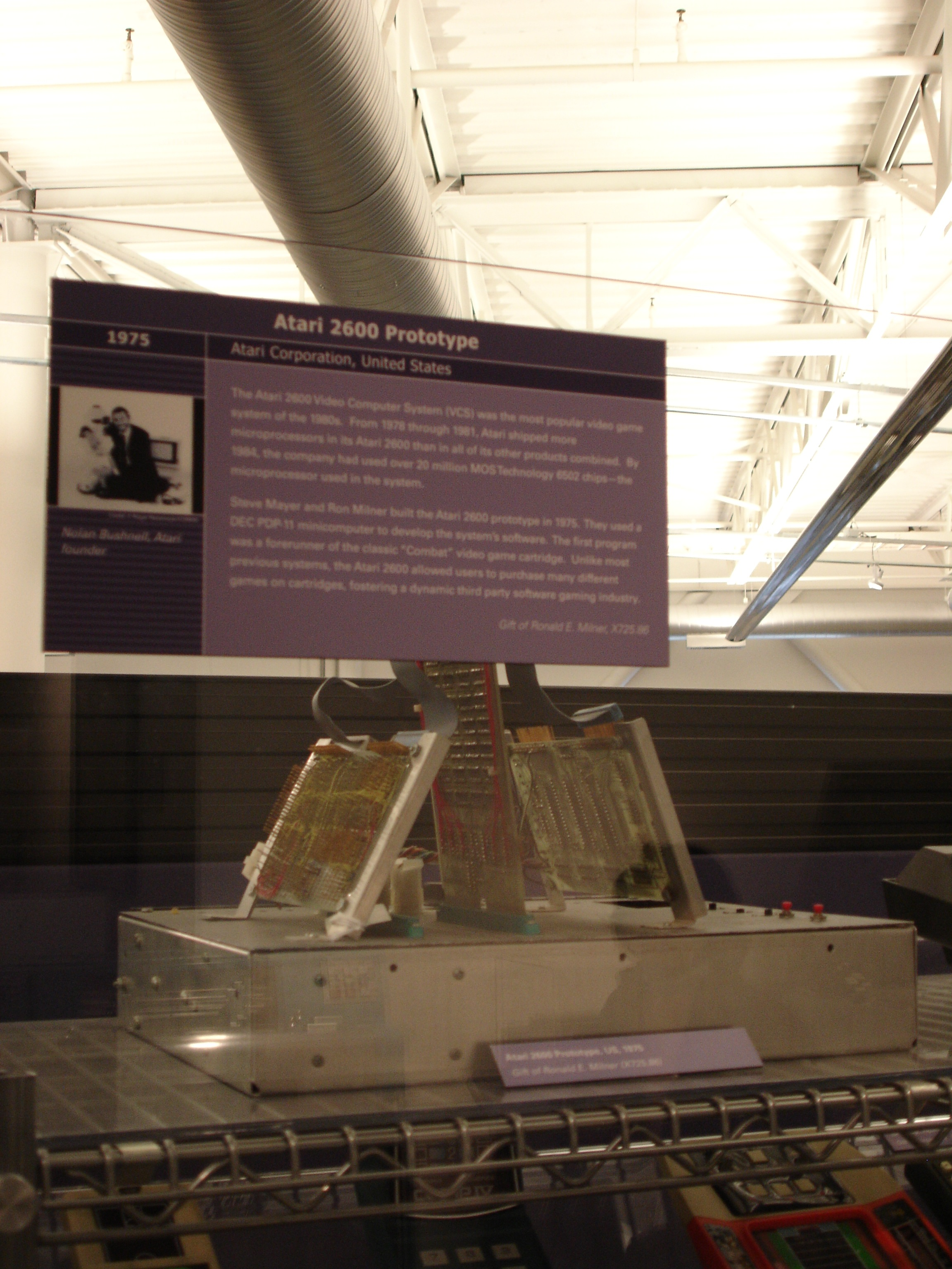 The original "Stella" prototype, on display at the Computer History Museum.